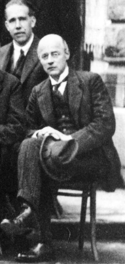 Niels Bohr (up), Owen Willans Richardson (down) Solvay Conference 1927